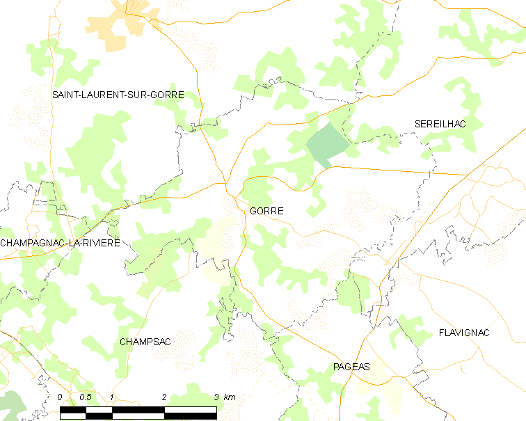 Map of French municipality Gorre